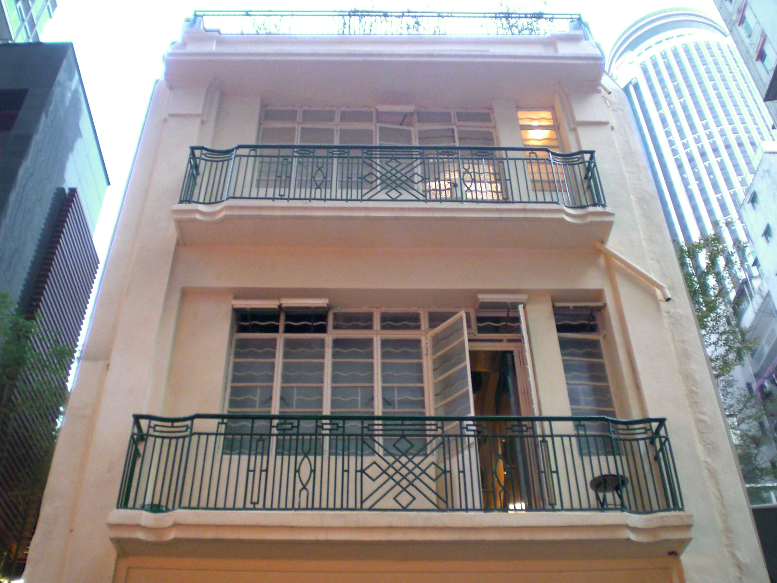 灣仔船街, Ship Street, Wan Chai, Hong Kong